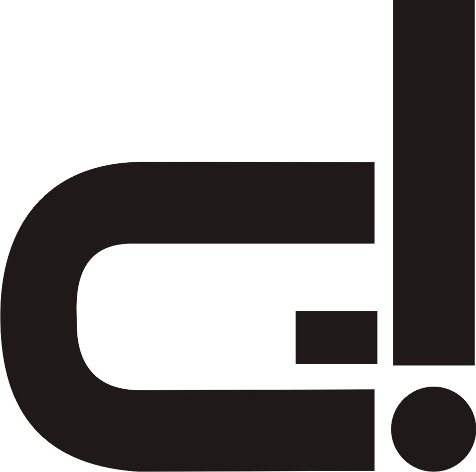 Gd logo